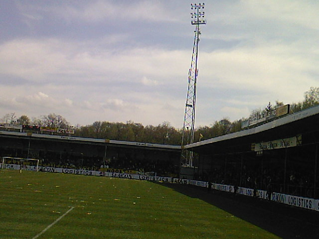 It's the stadium of VVV-Venlo named Stadion De Koel